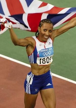 Kelly on her lap of honour after winning the 1500m final